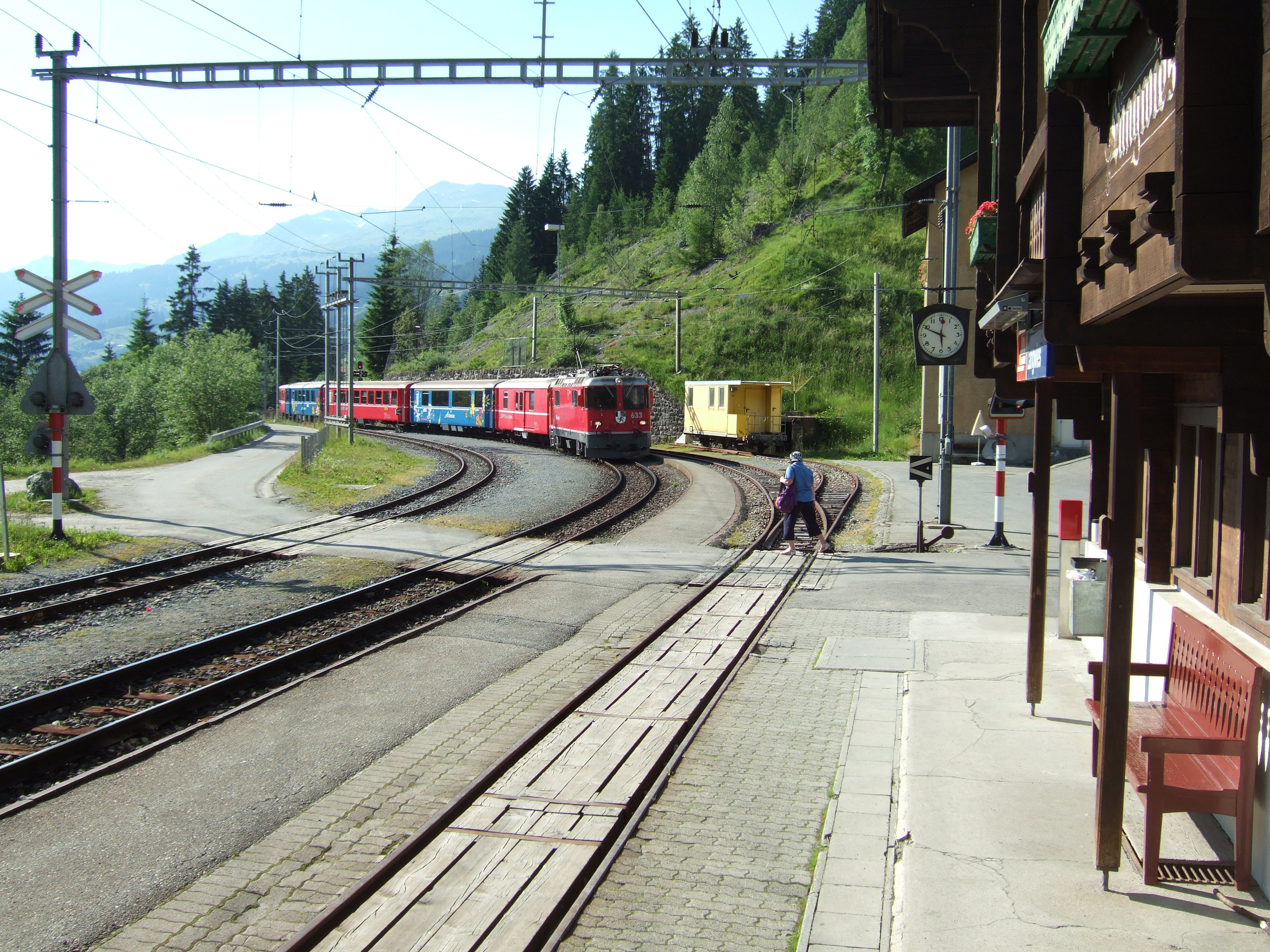 Langwies, Switzerland